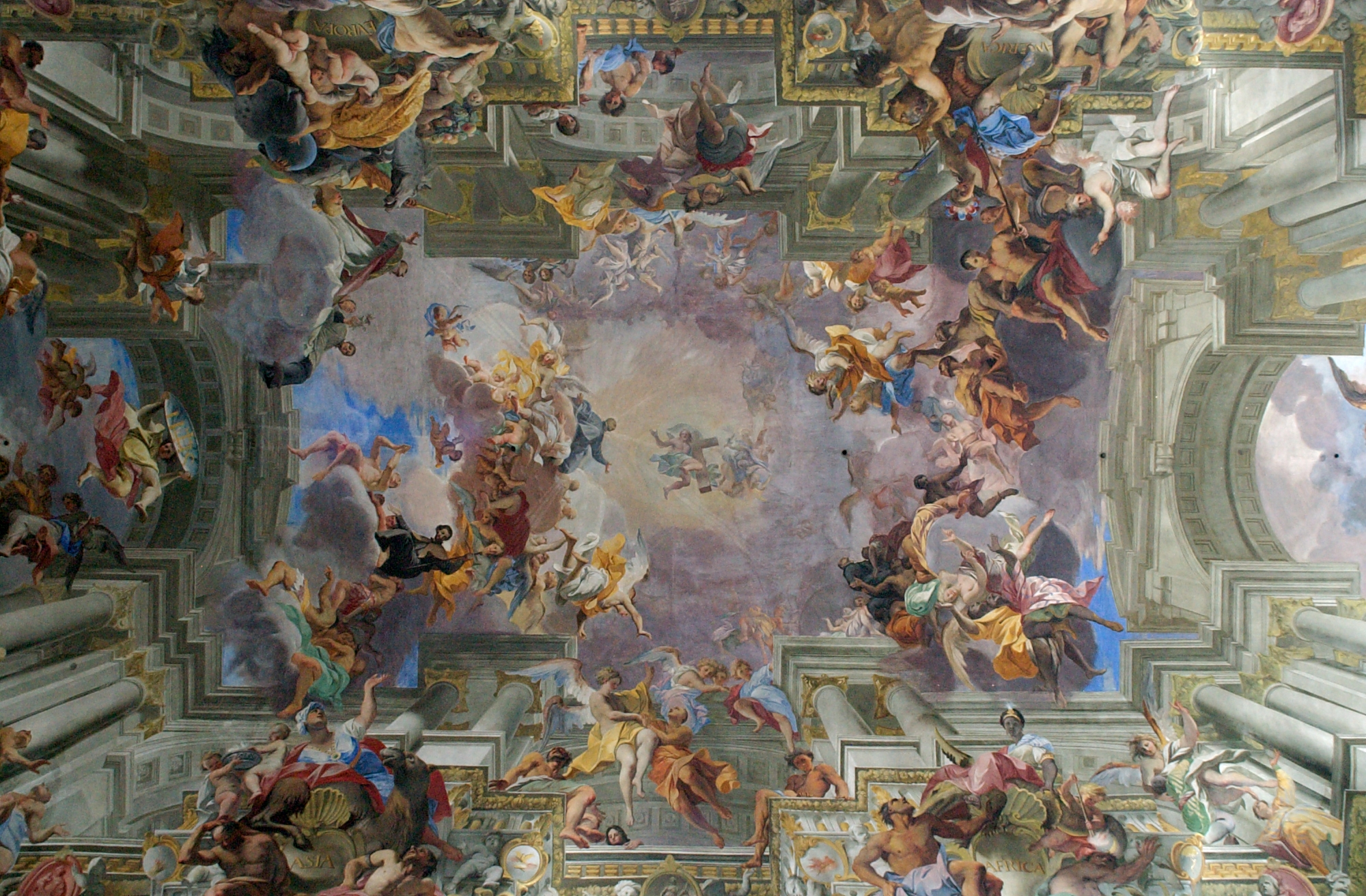 Andrea Pozzo executed this vault fresco in 1694 celebrating the success of the missionary activities of the Society of the Jesuits. (The light of the Gospel illuminating the four corners of the world.) The church was built in 1626.